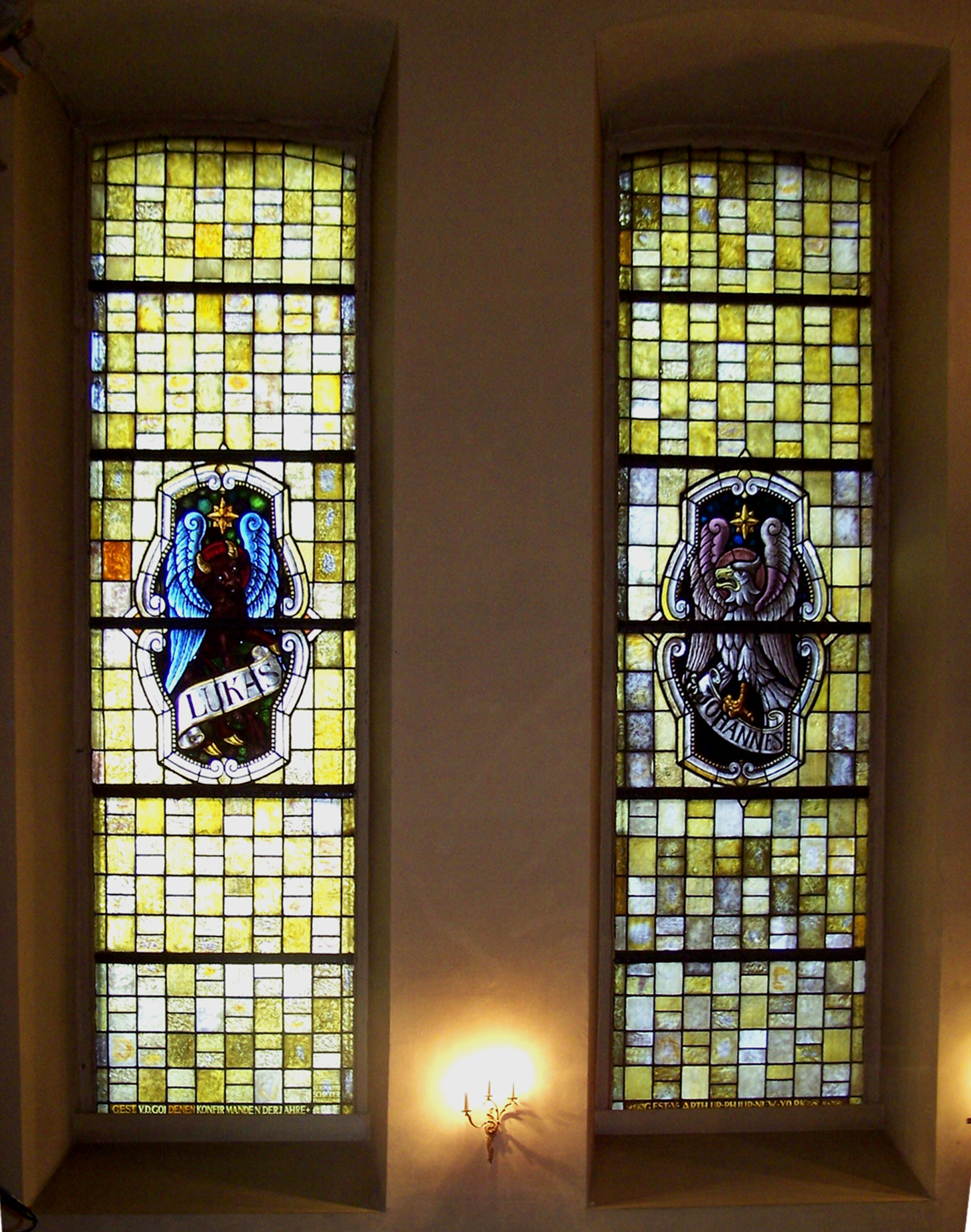 Stained glass windows of the Church of Johannes in Frankfurt am Main-Bornheim